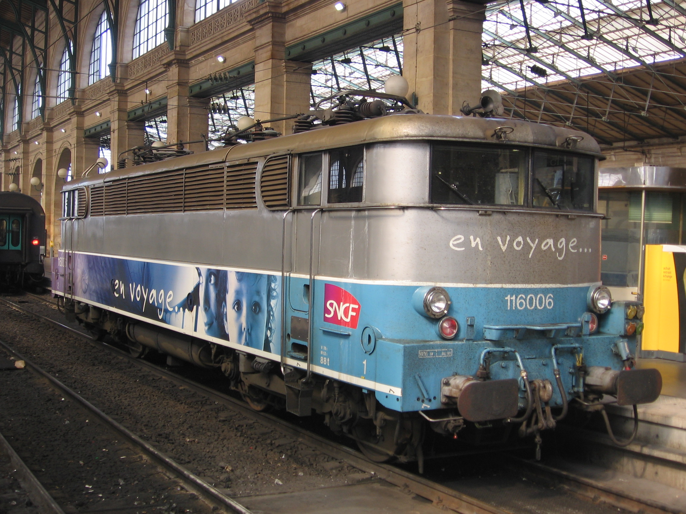 SNCF BB 16006 at Paris Gare du Nord.